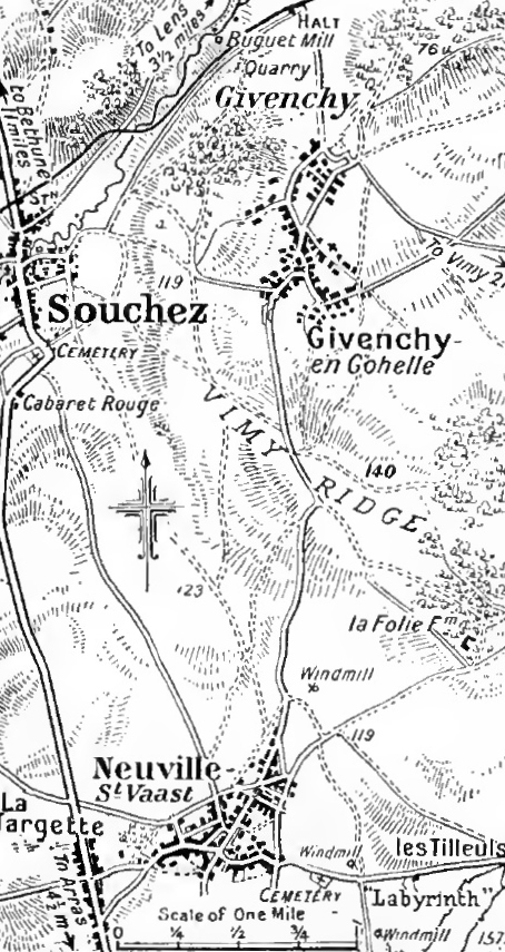 Map showing Vimy Ridge